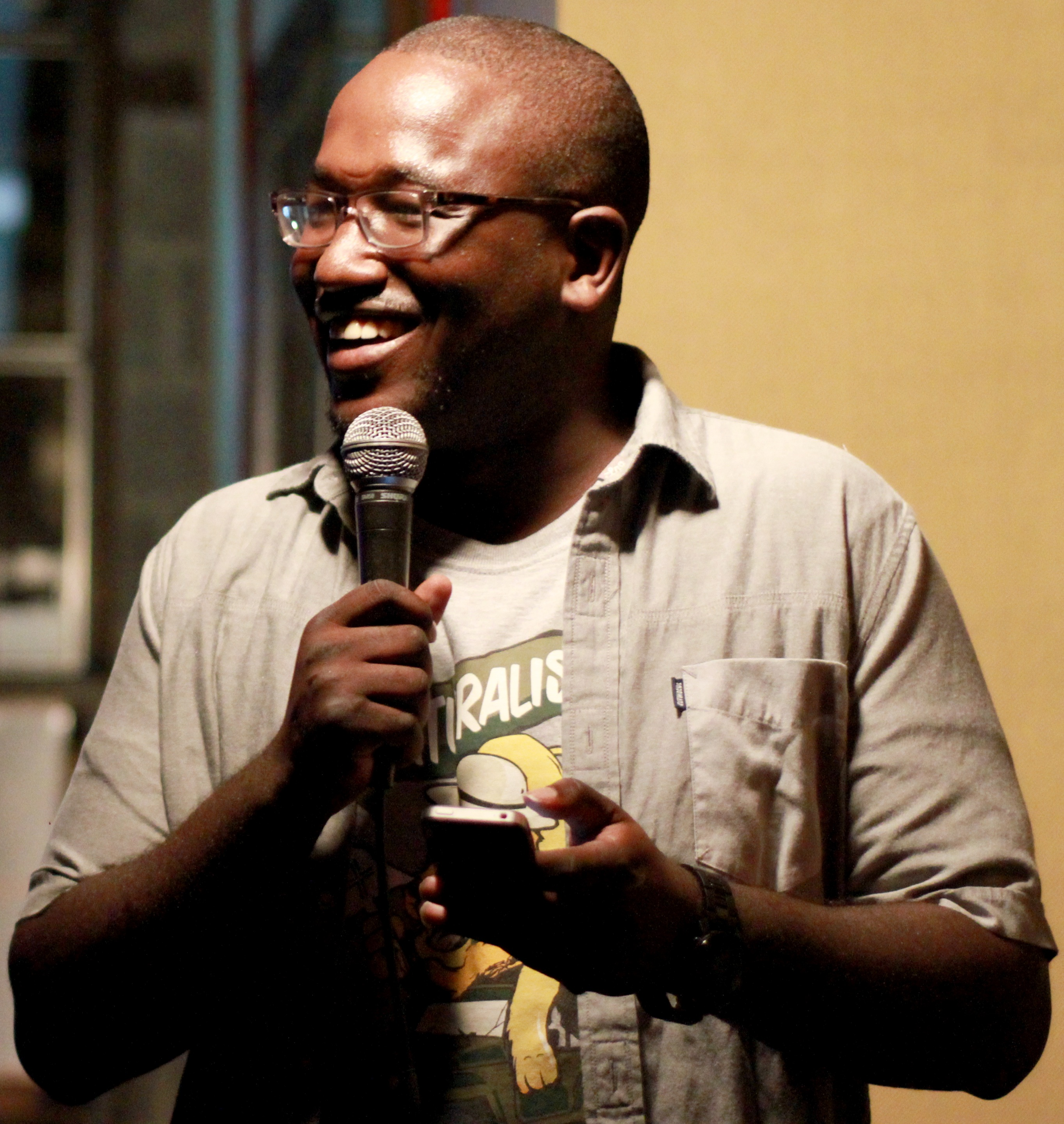 Photo of Hannibal Buress hosting his Sunday night showcase at The Knitting Factory, Brooklyn.